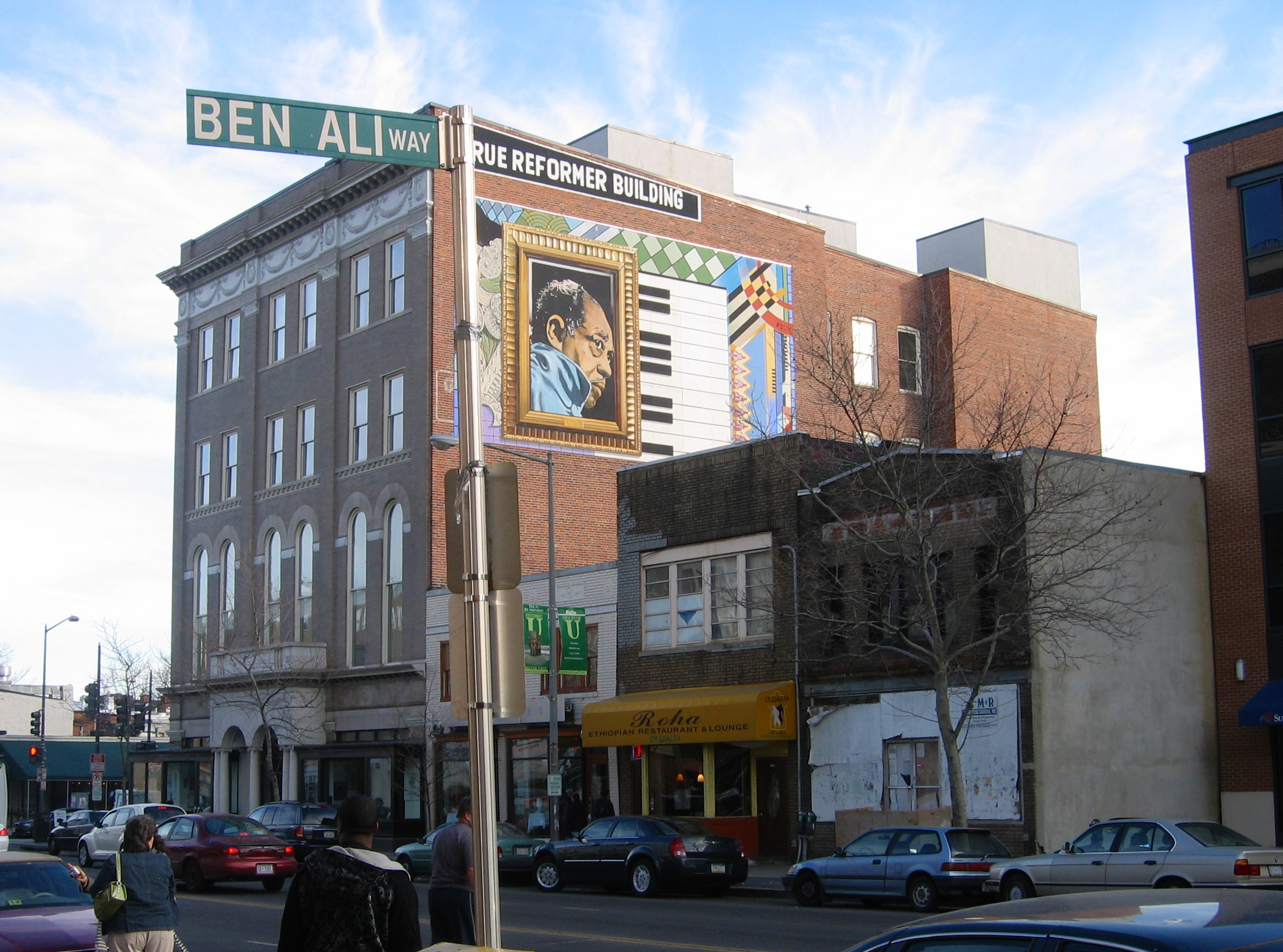 True Reformer Building, located on U Street. Photo taken from across the street at Ben's Chili Bowl (Ben Ali Way named for the owner of Ben's Chili Bowl).